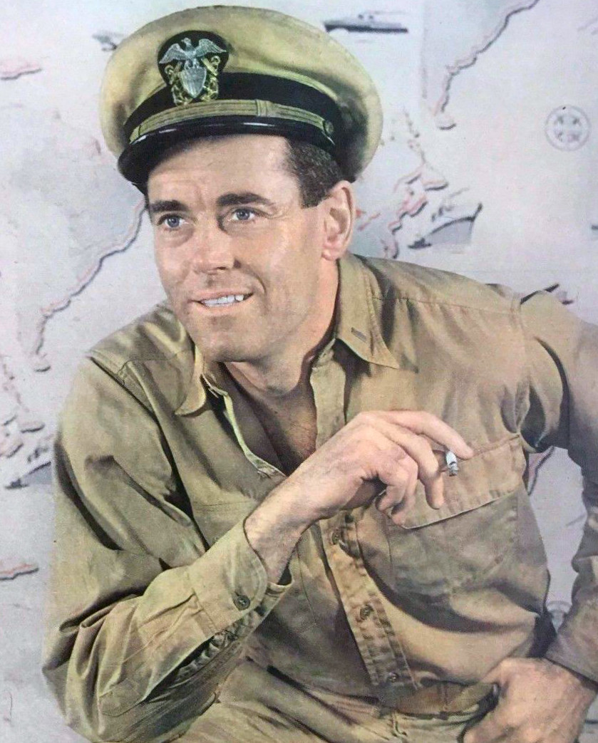 Photo of Henry Fonda as Mister Roberts from the cover of a 1948 New York Sunday News magazine. A search for renewals was done in periodicals for the years 1975 and 1976 There were no listings for New York Daily News or New York Sunday News--the first "New York" listing is for New York Supplement. There's no evidence of renewal for the newspaper.